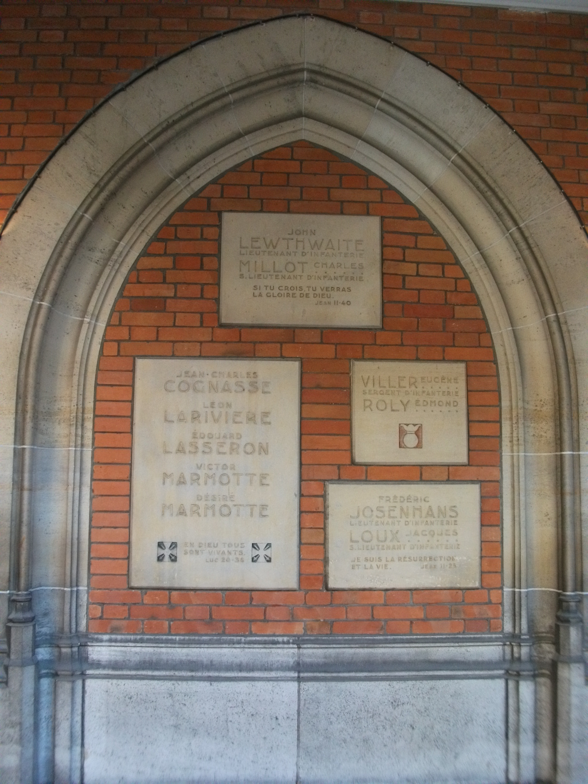 dans le déambulatoire du patio du Temple de Reims, honneur à John Lewthwaite, Eugène Viller, Edmond Roly, Frédéric Josenhans, Jacques Roux, Charles Millot, Jean-Charles Cognasse, Léon Larivière, 2douard Lasseron, Victor et Désiré Marmotte.